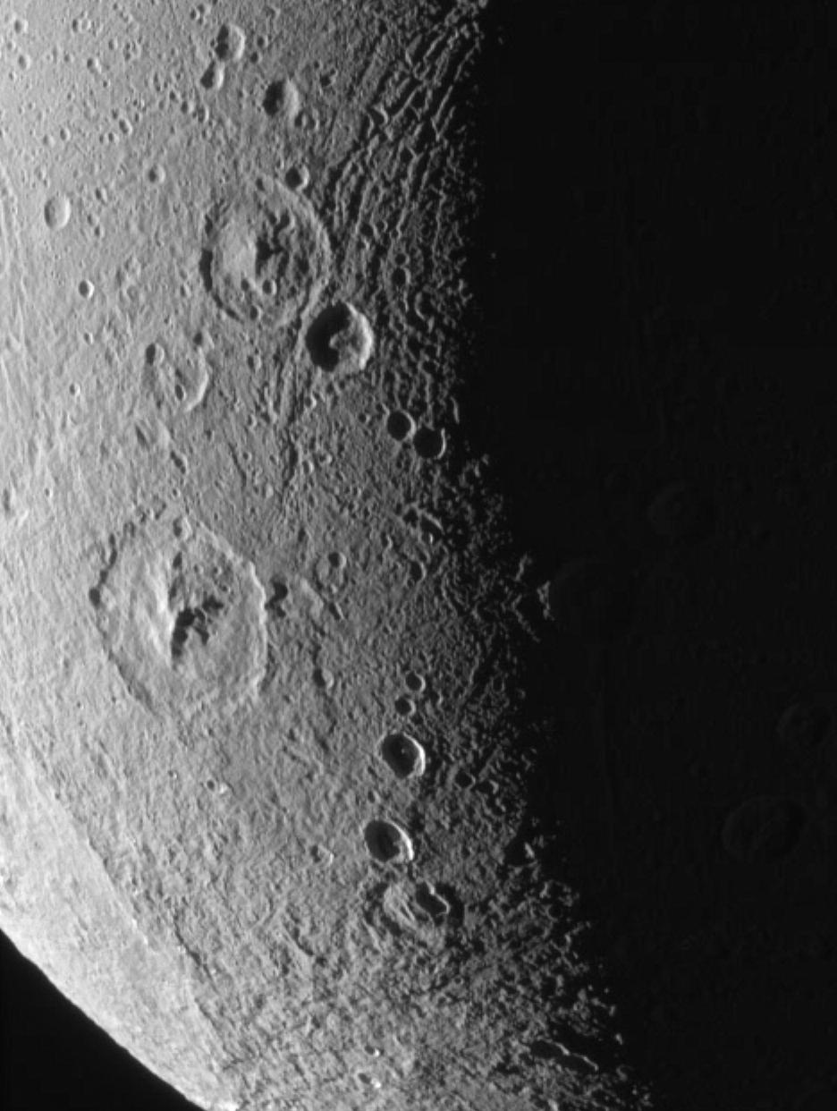 A close view of Dione, one of Saturn's natural satellites.